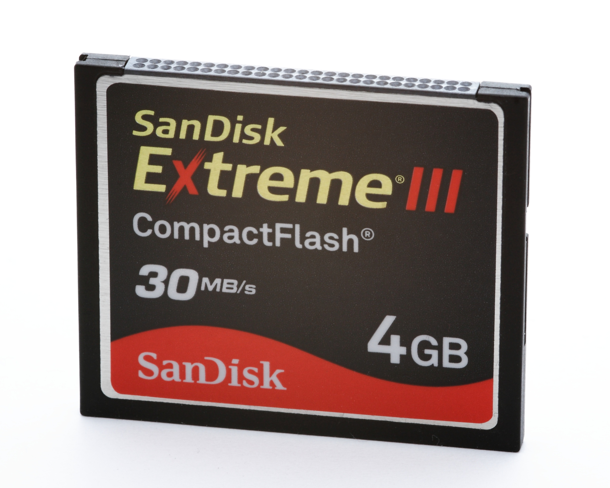 CompactFlash card 4GB